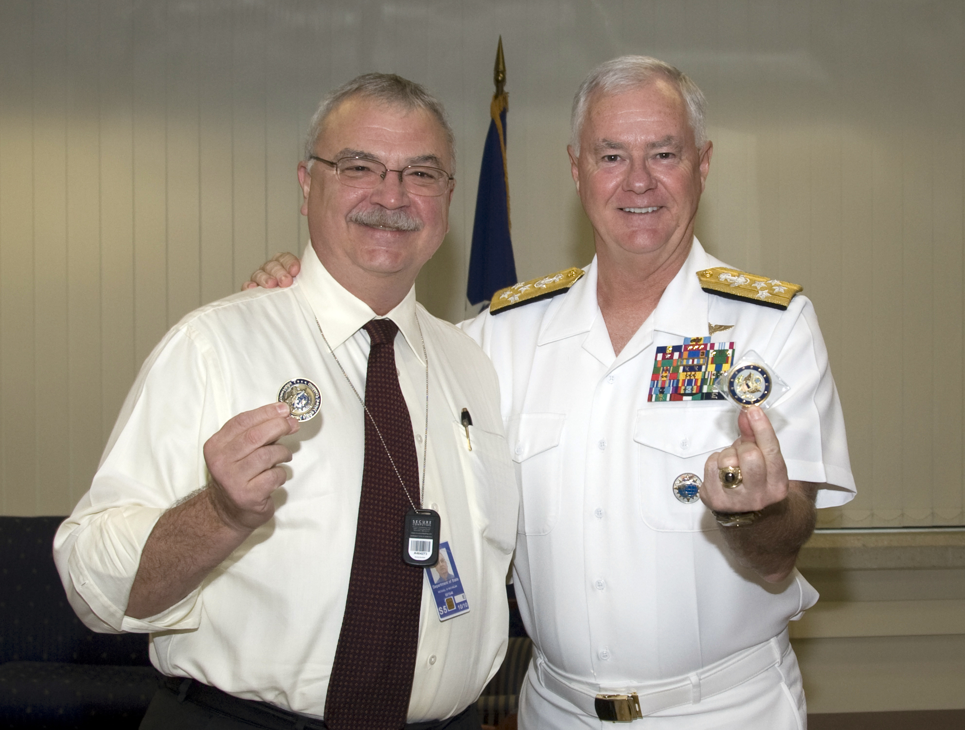 Hanoi, Vietnam. Ambassador Michael Michalak, U.S. Ambassador to Vietnam, and Adm. Timothy J. Keating, commander, U.S. Pacific Command, show off their new coins after an office call to the U.S. embassy in Hanoi. This was the first visit to Vietnam for Keating as Commander, U.S. Pacific Command.